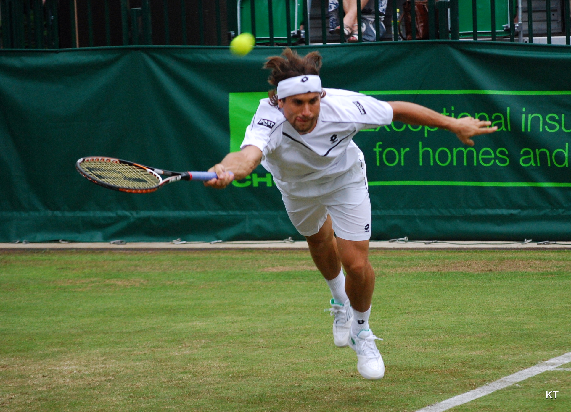 The Boodles, Stoke Park, 2011.